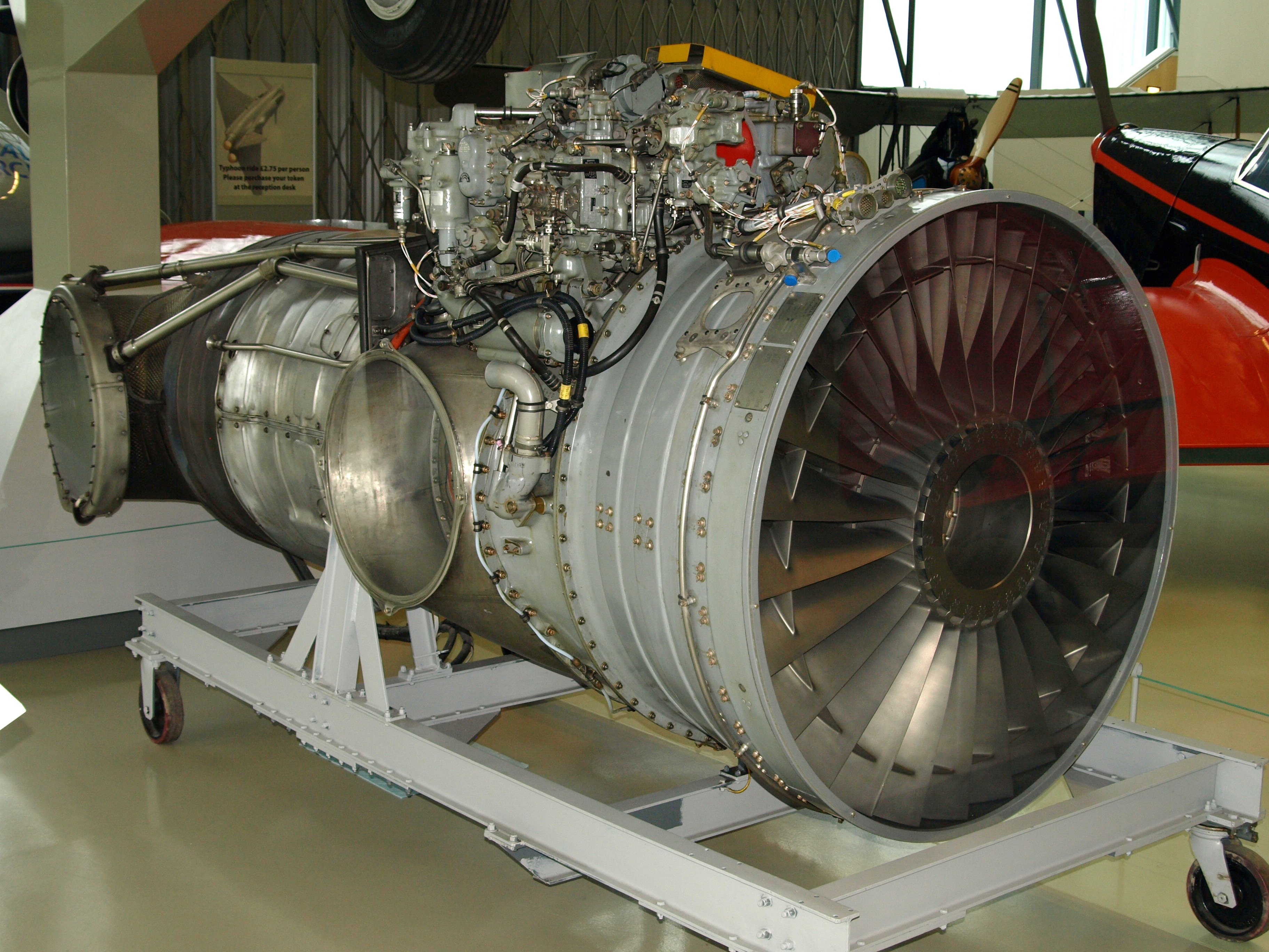 Rolls-Royce Pegasus turbofan aero engine at the Royal Air Force Museum, London.